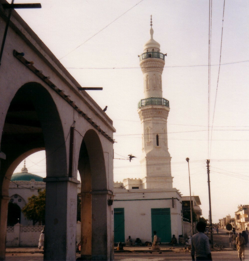 Mosque's minaret with balconies - in Port Sudan - Sudan.